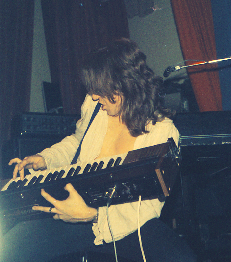 Danny Peyronel, playing with The Heavy Metal Kids, Croydon, 3rd November 1974.